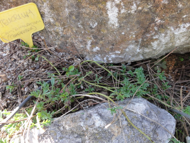 Visió propera